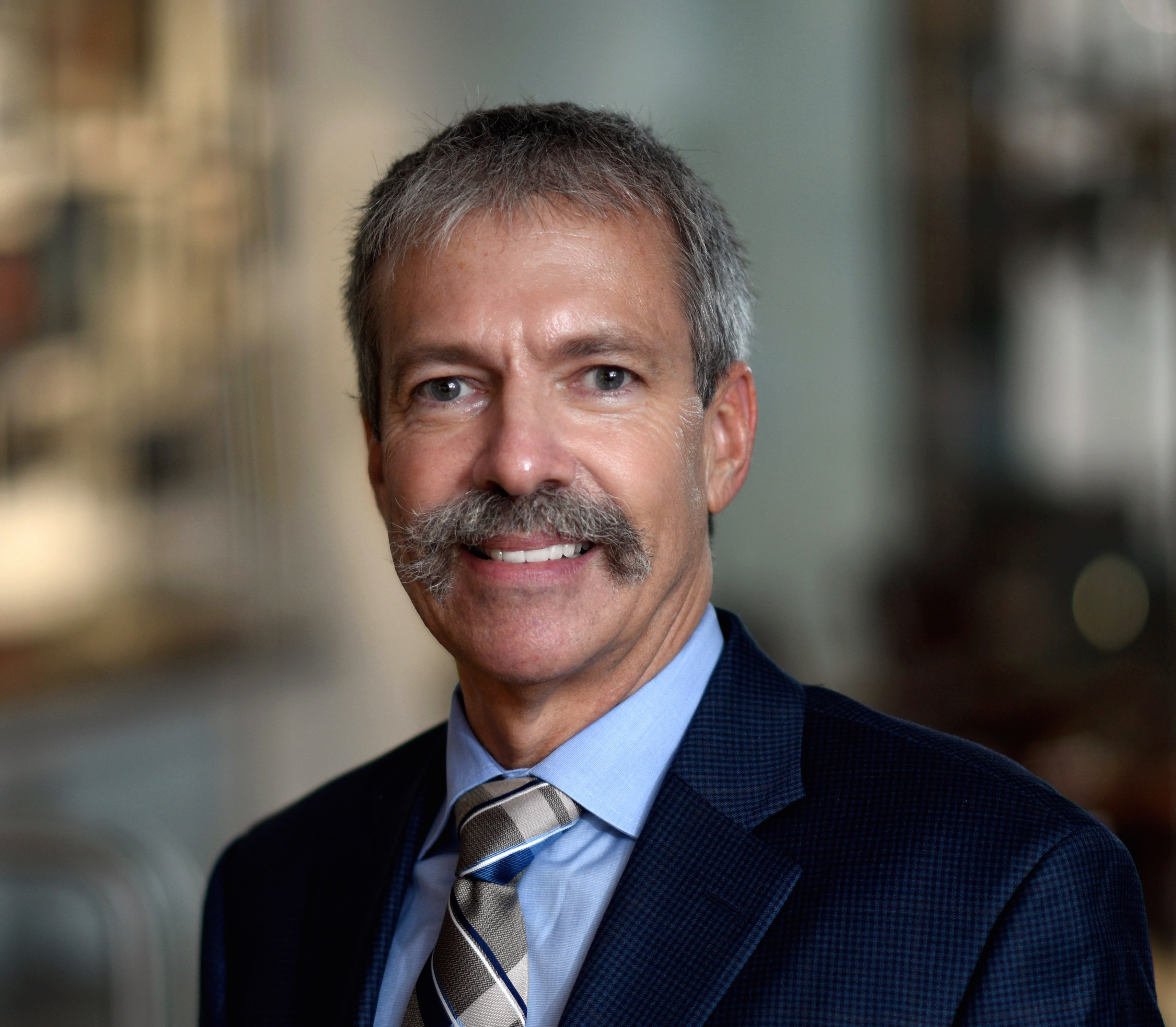 Photo of Wayne Goodman, MD